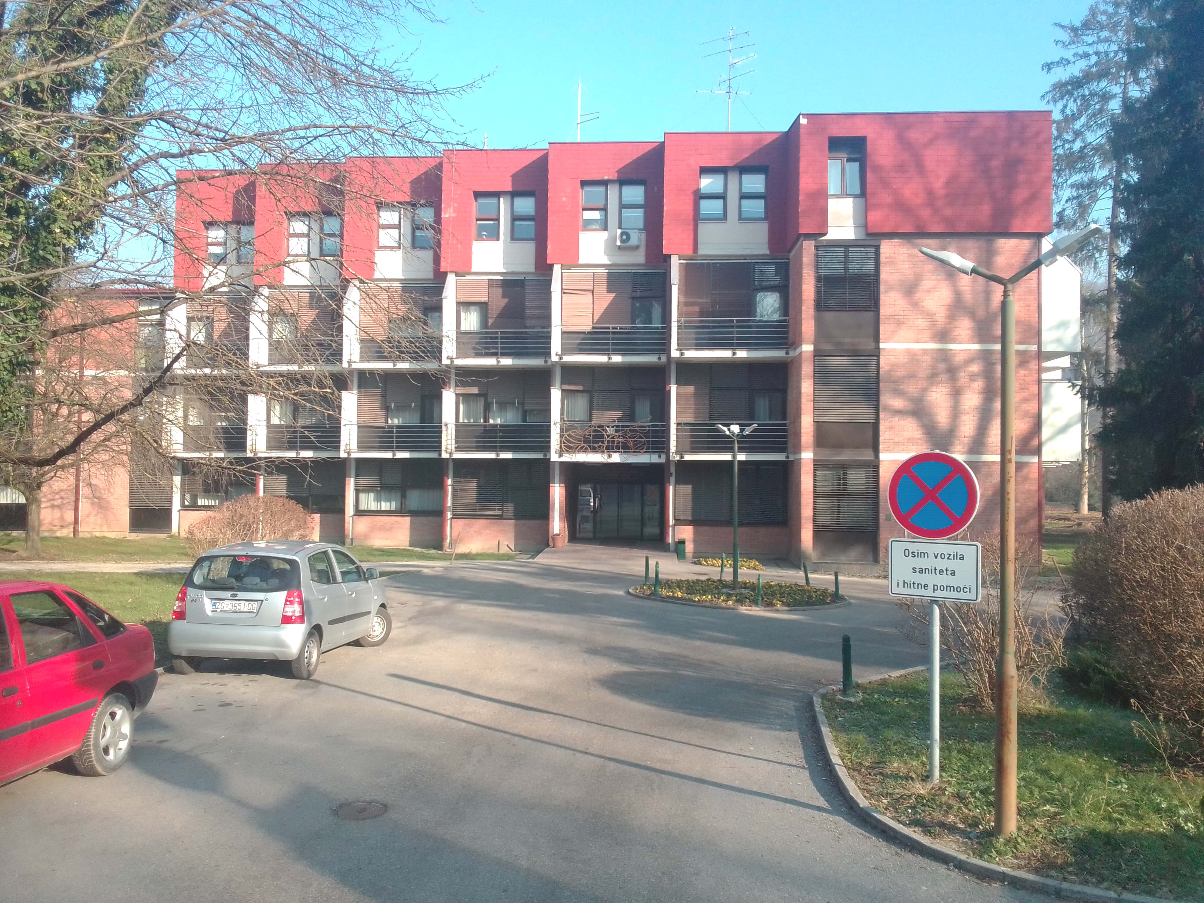 Special hospital for medical rehabilitation, object Toplice